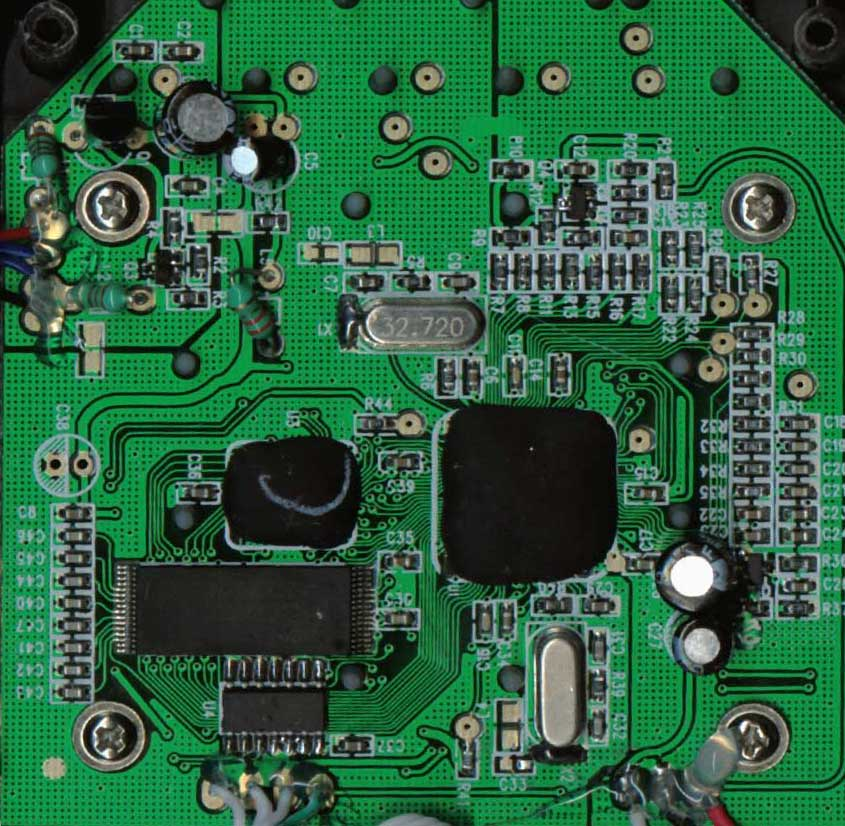 Scan of the PCB (the motherboard) from a Commodore DTV (NTSC).